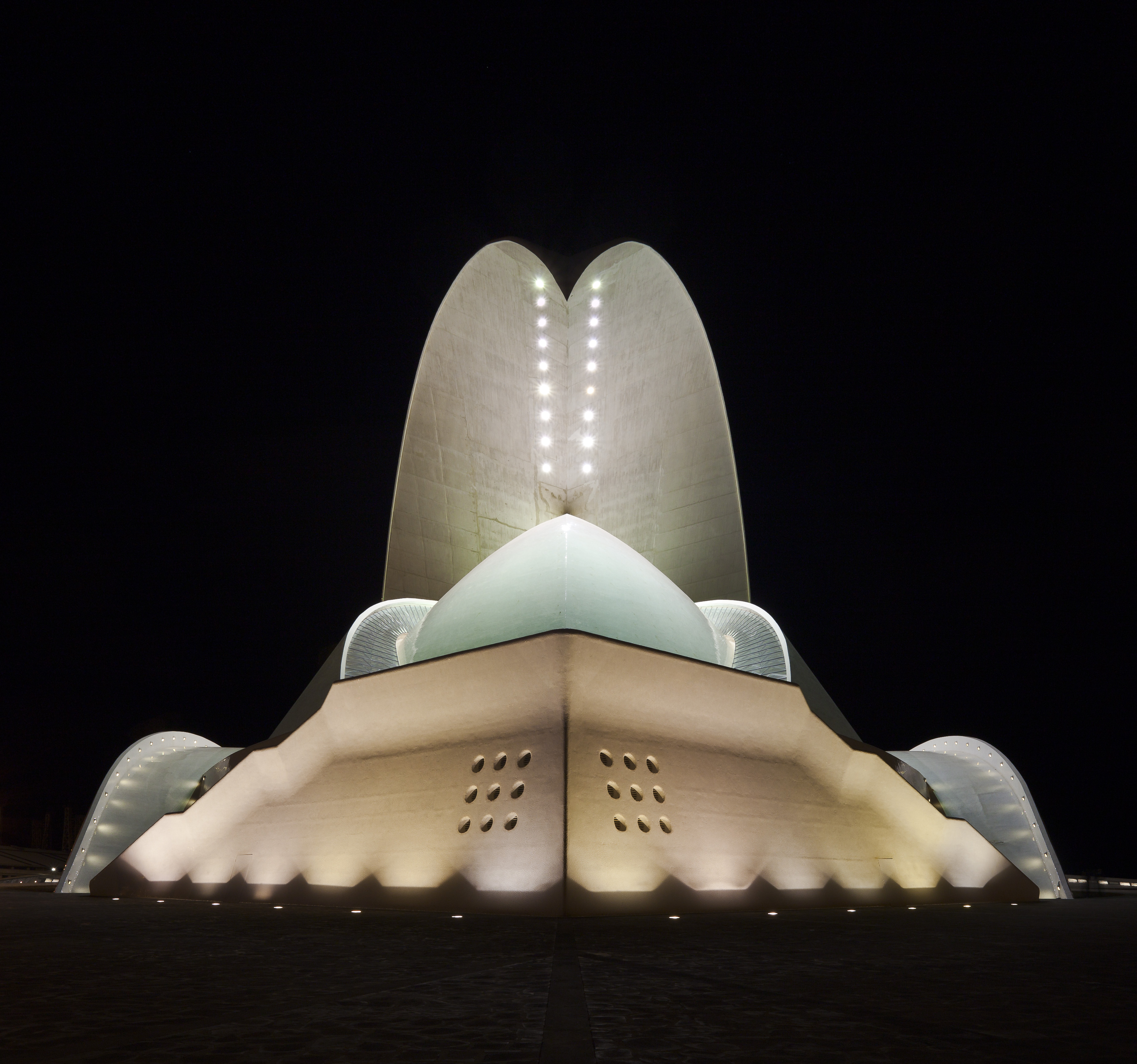 Auditorium of Tenerife, Santa Cruz de Tenerife, Spain